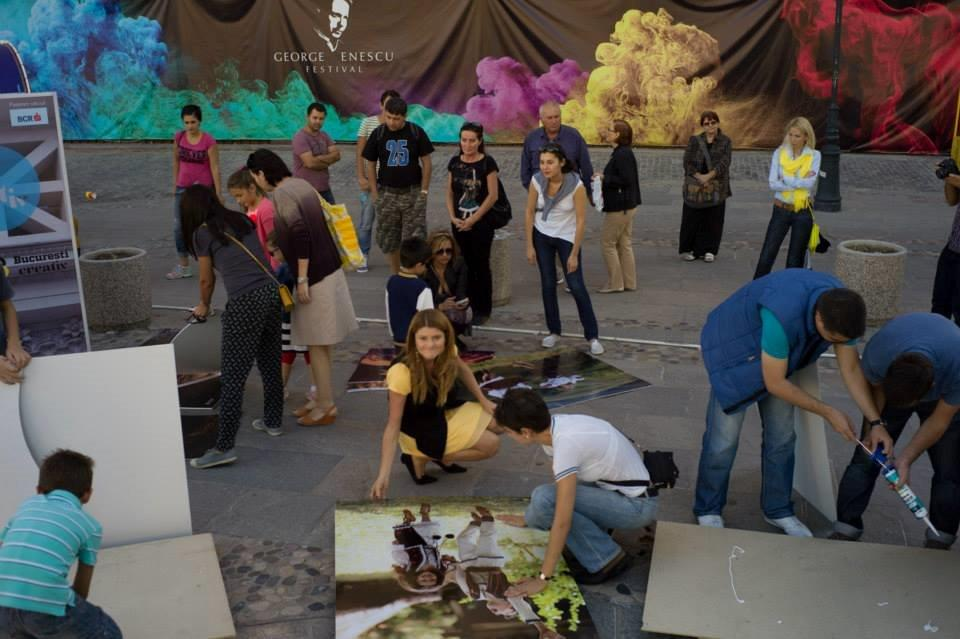 credit: Andrei Gîndac